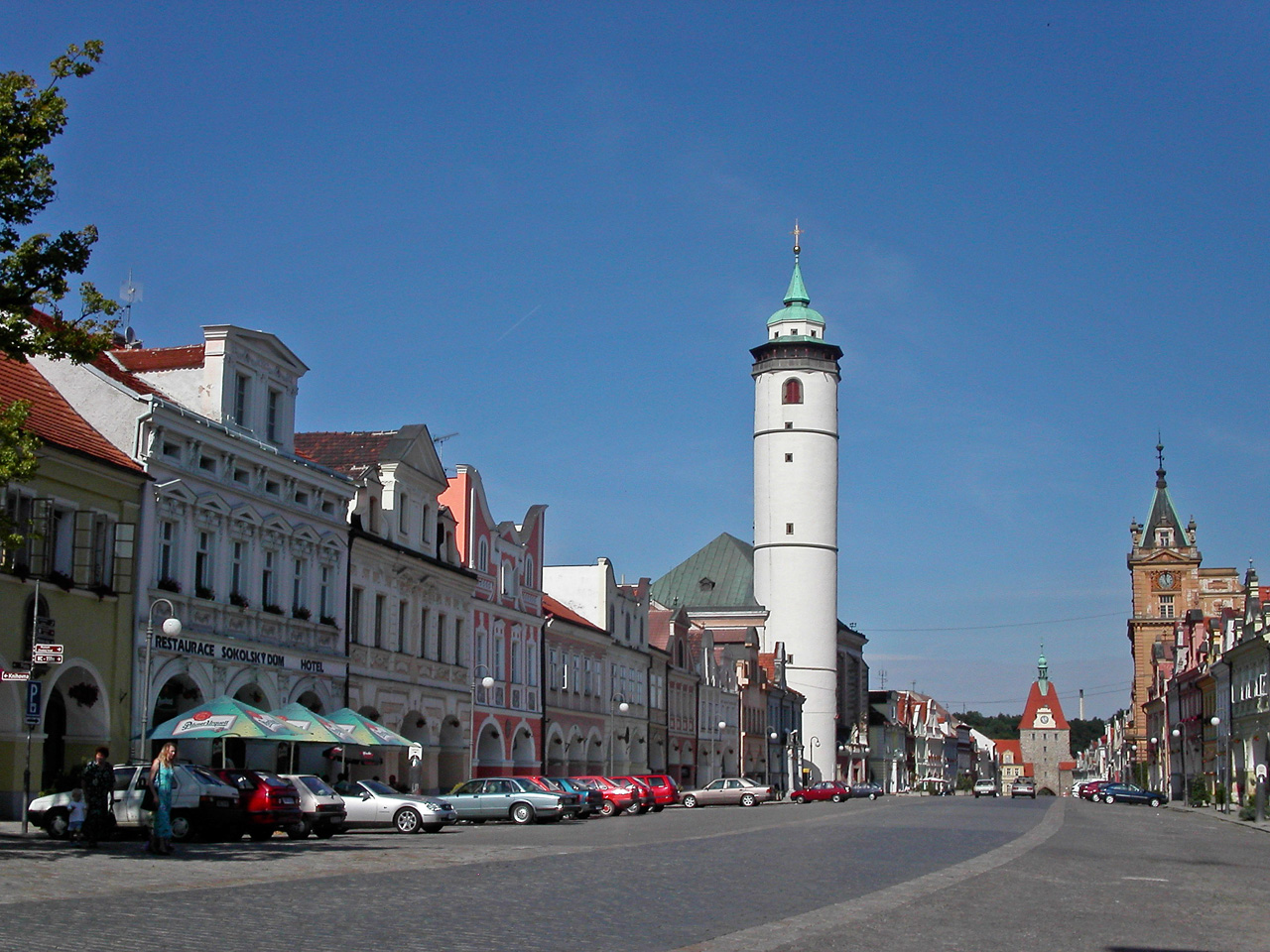 Central square in Domažlice, Czechia